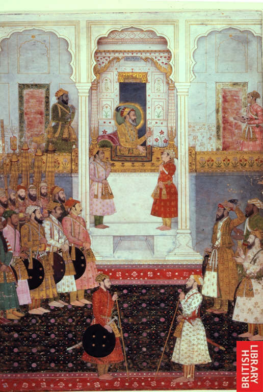 "Shah Jahan in durbar, holding a ruby in his right hand; 'chauri'-bearers stand on either side of him and an attendant before him holds a tray of jewels. On the left is prince Alamgir (Aurangzeb) who salutes his father. The location is the Diwan-i-Am at Delhi. Opaque watercolour, c.1650"* (BL)